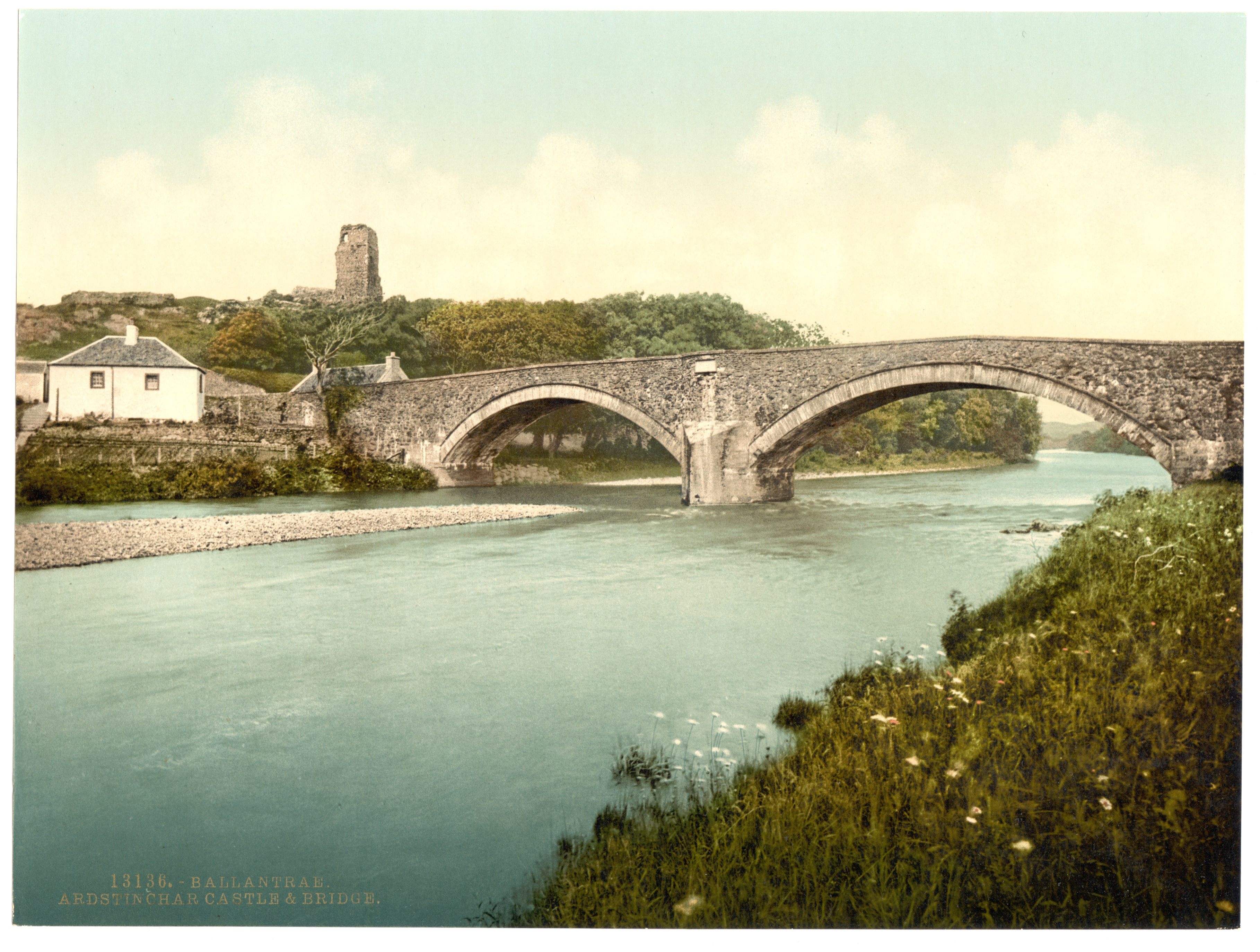 Title from the Detroit Publishing Co., catalogue J-foreign section. Detroit, Mich. : Detroit Photographic Company, 1905.; More information about the Photochrom Print Collection is available at Forms part of: Views of landscape and architecture in Scotland in the Photochrom print collection.; Print no. "13136".